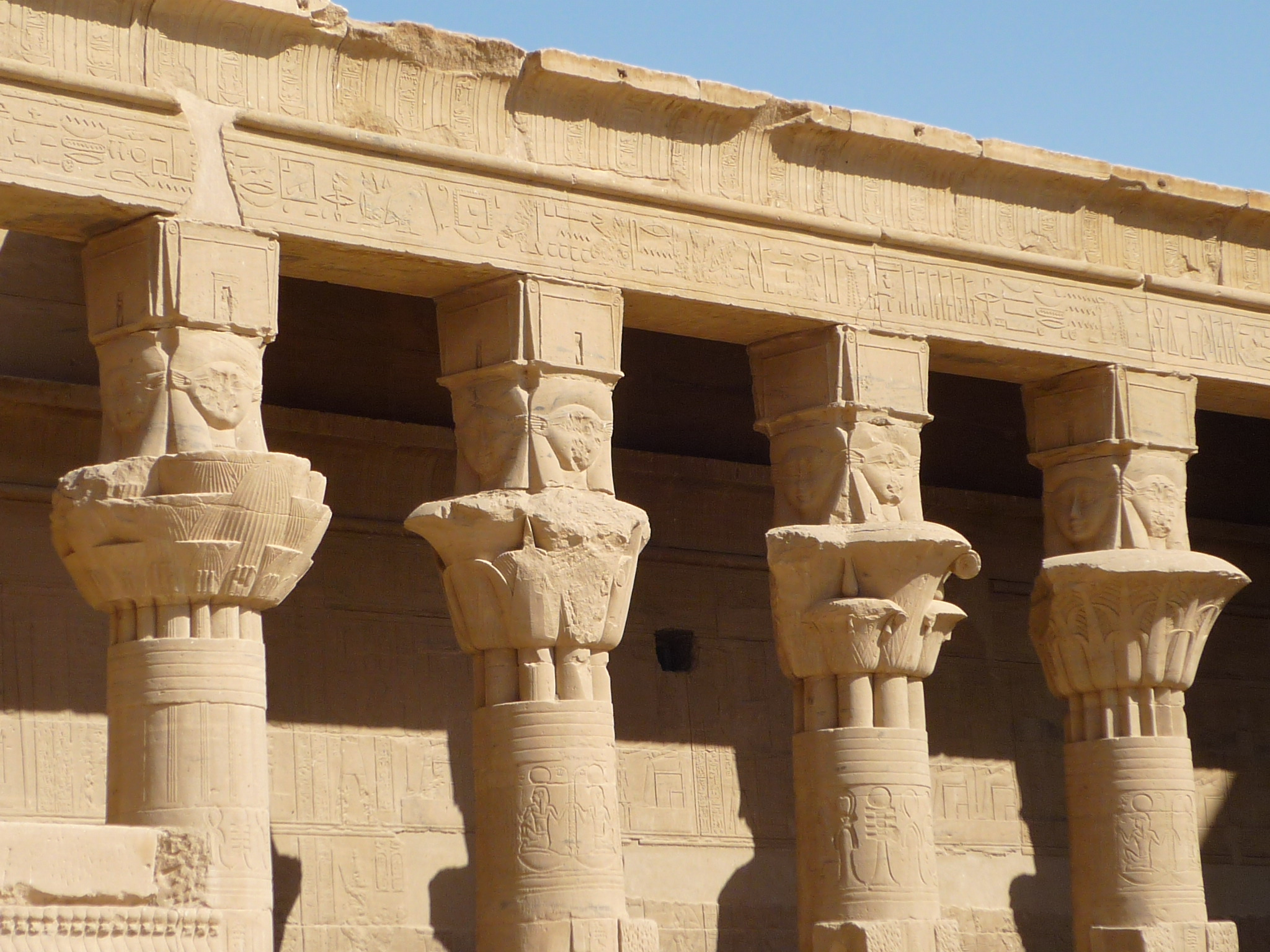 Mammisi, Isis Temple, Philae Island, Egypt